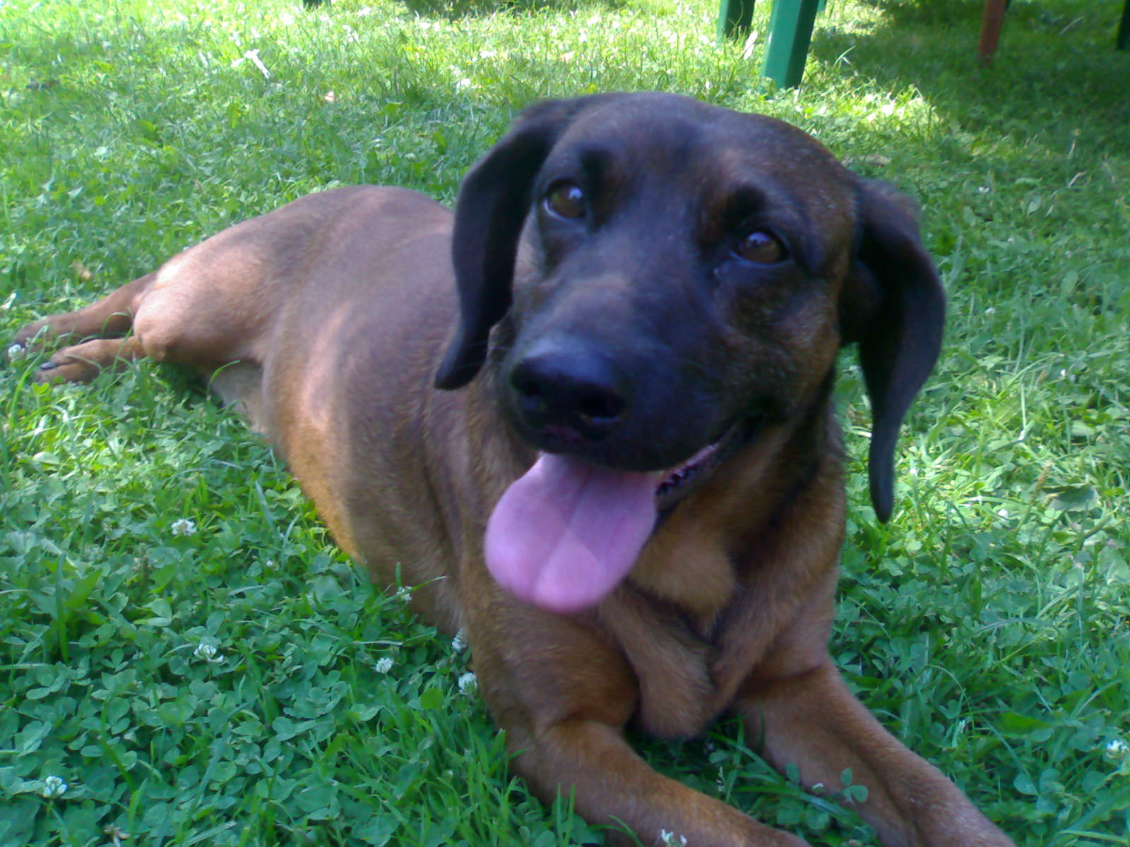 Bavarian Mountain Hound, female